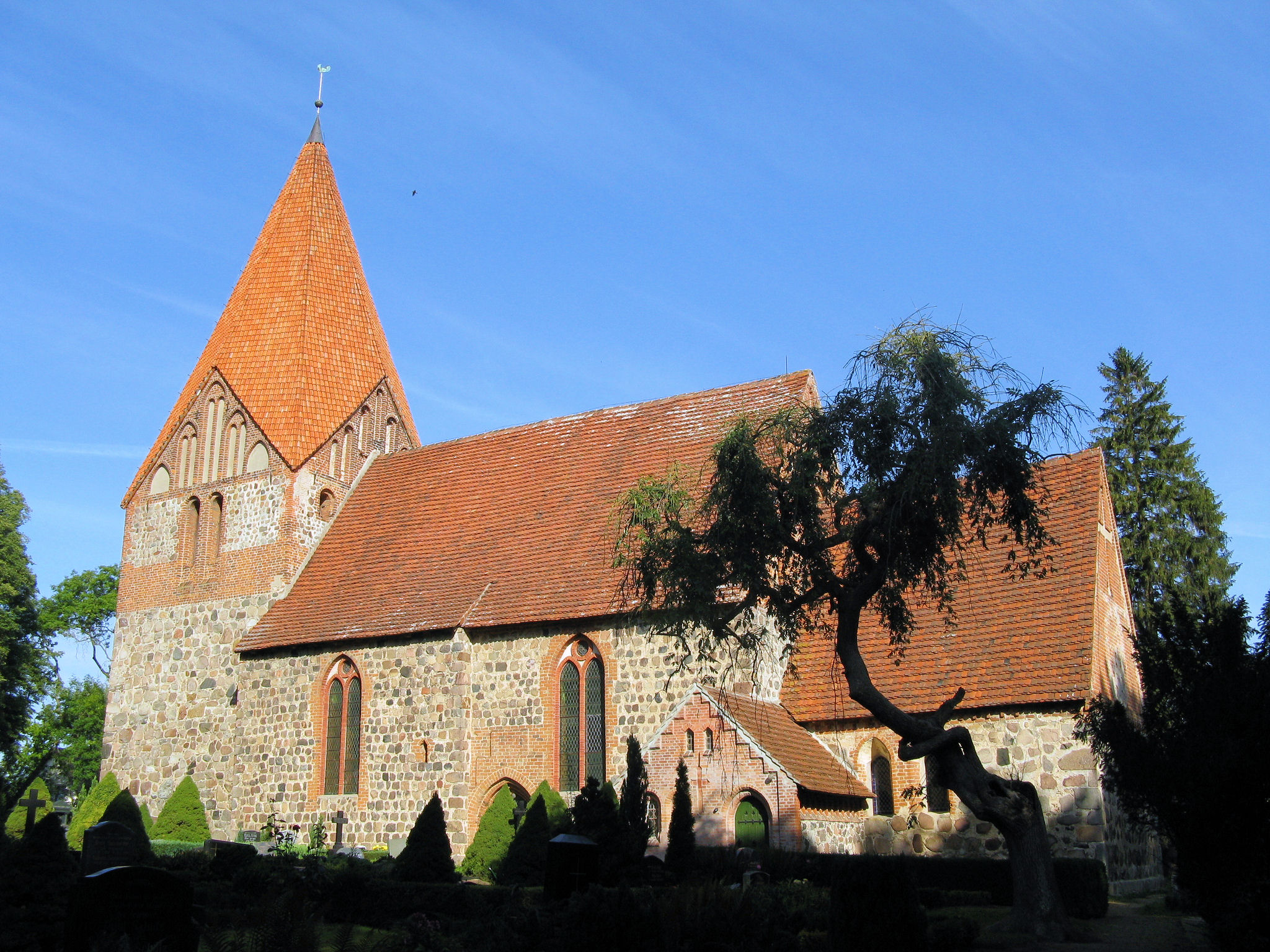 Church in Bernitt, disctrict Güstrow, Mecklenburg-Vorpommern, Germany